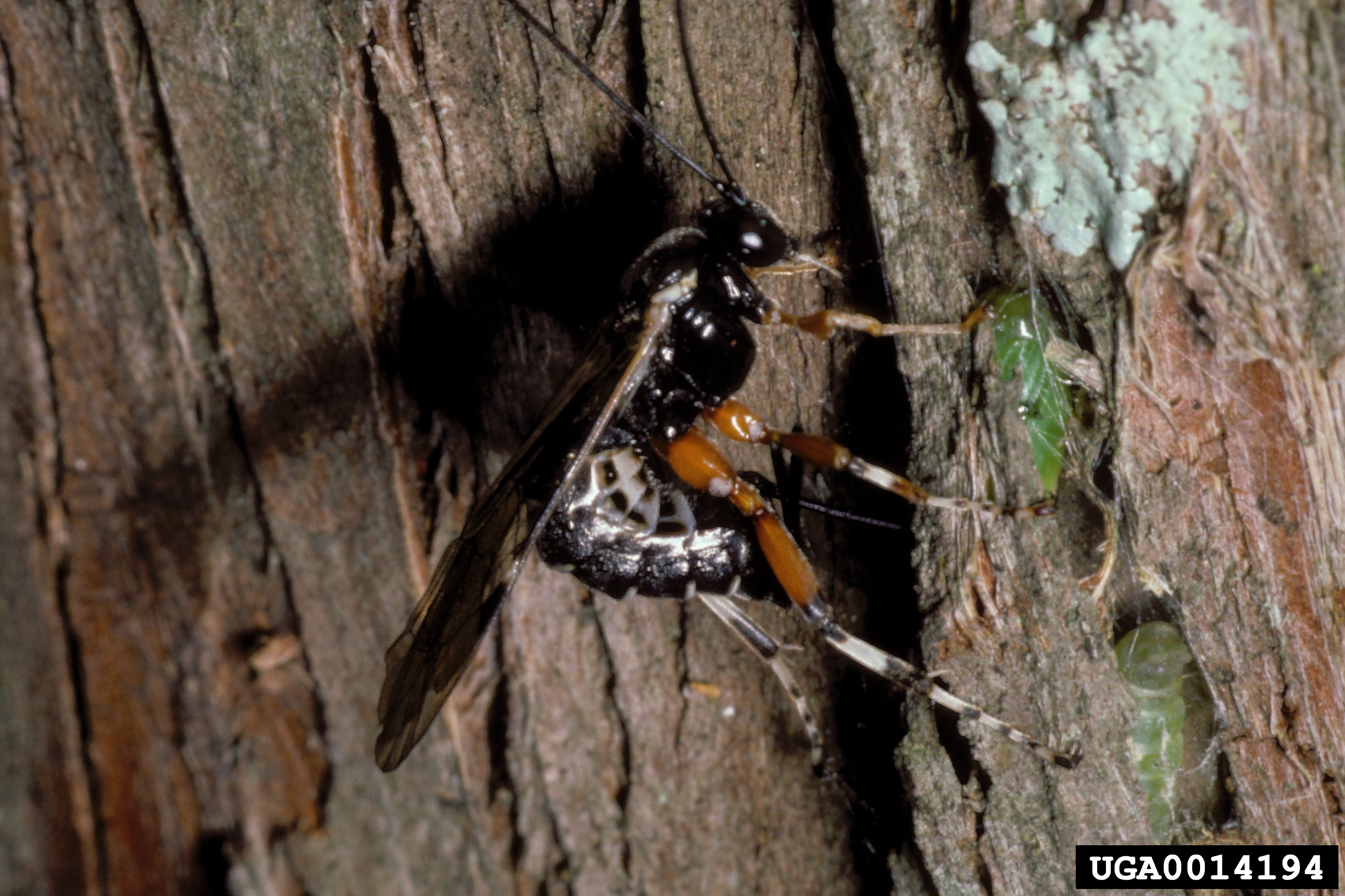 Insect species Itoplectis conquisitor